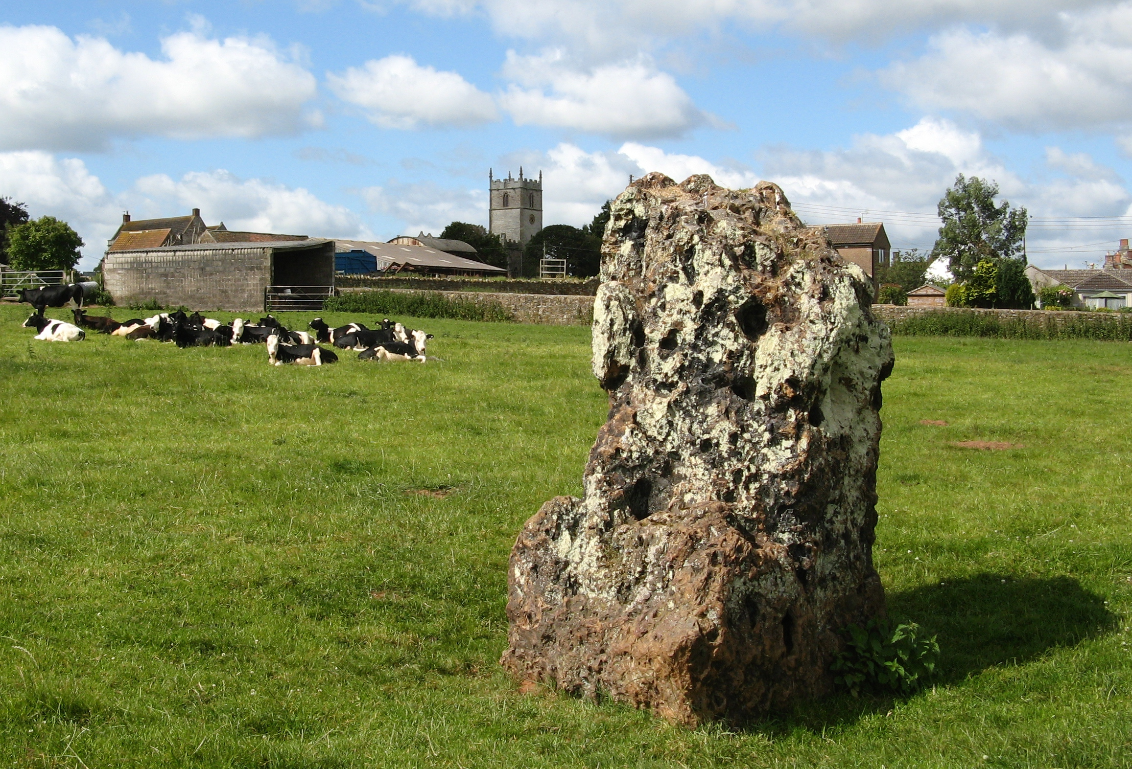 A stone from the Great Circle of Stanton Drew stone circles, with the nearby farm and St Mary's church tower in the background.